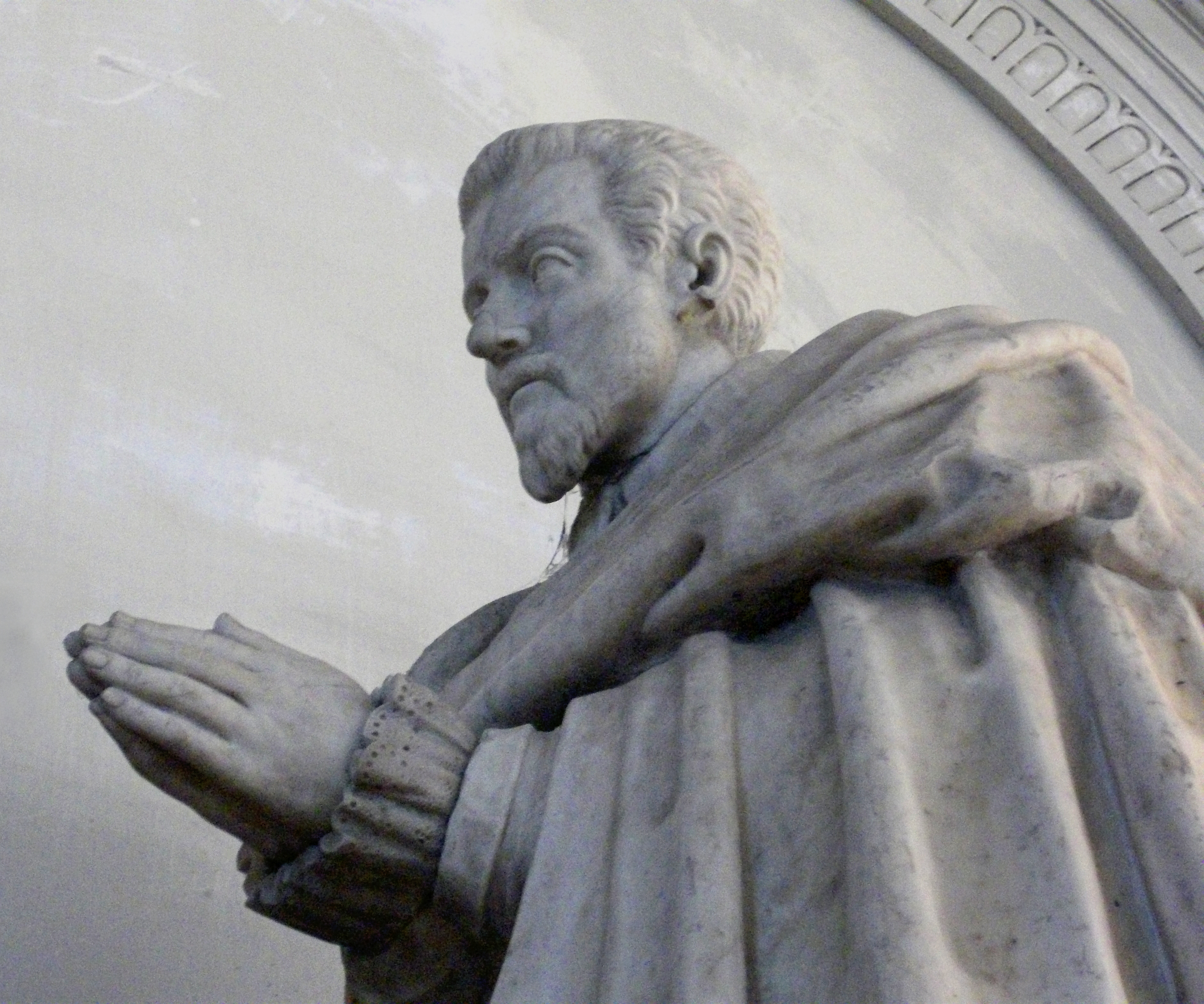 Tomb of Charles de Vaudémont (1561-1587), by Étienne Dupérac and Florent Drouin, 1588, in Cordeliers' church of Nancy